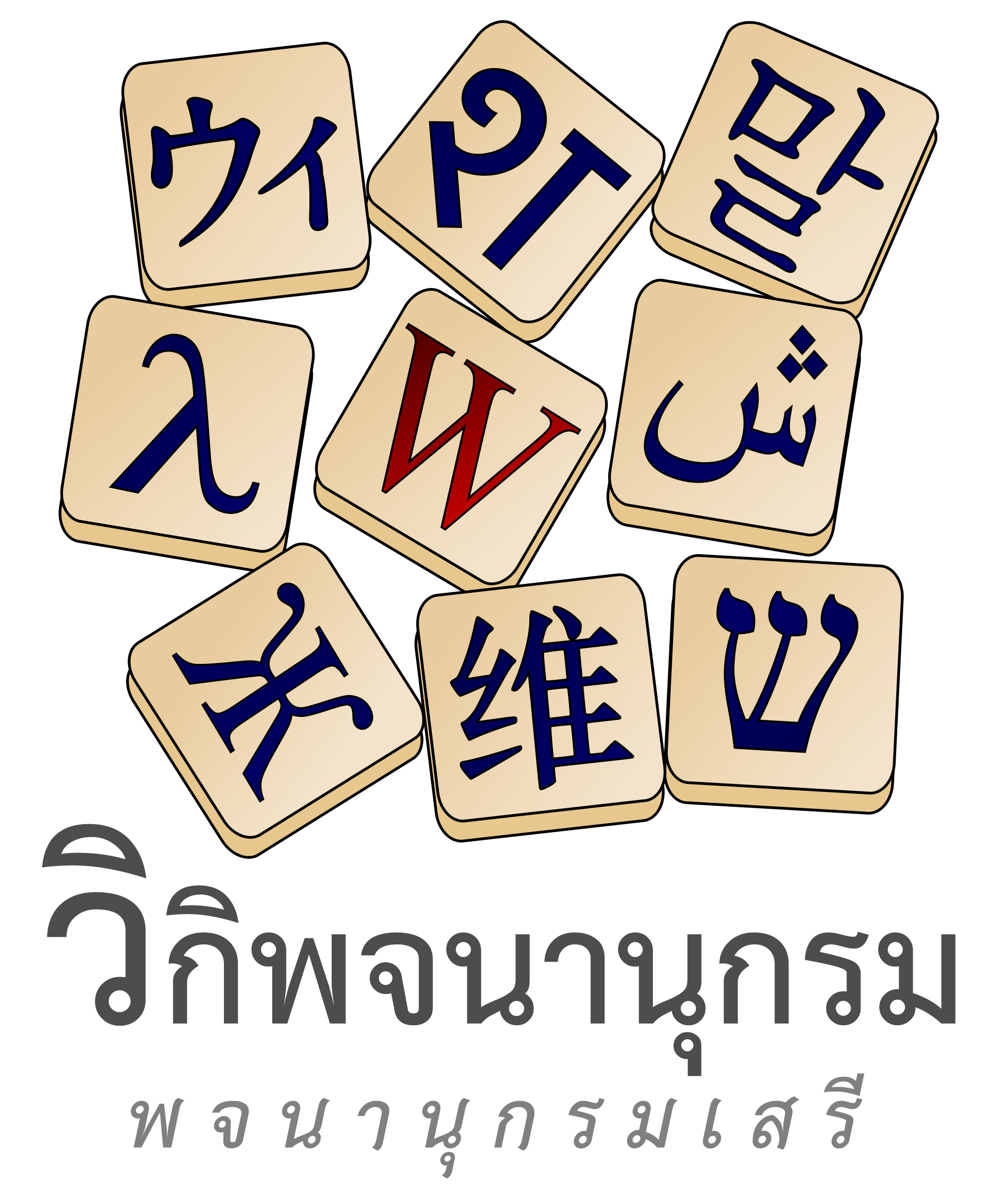 Thai Wikitionary Logo. The font used is "TH Sarabun New", a public font released by the Government of Thailand.